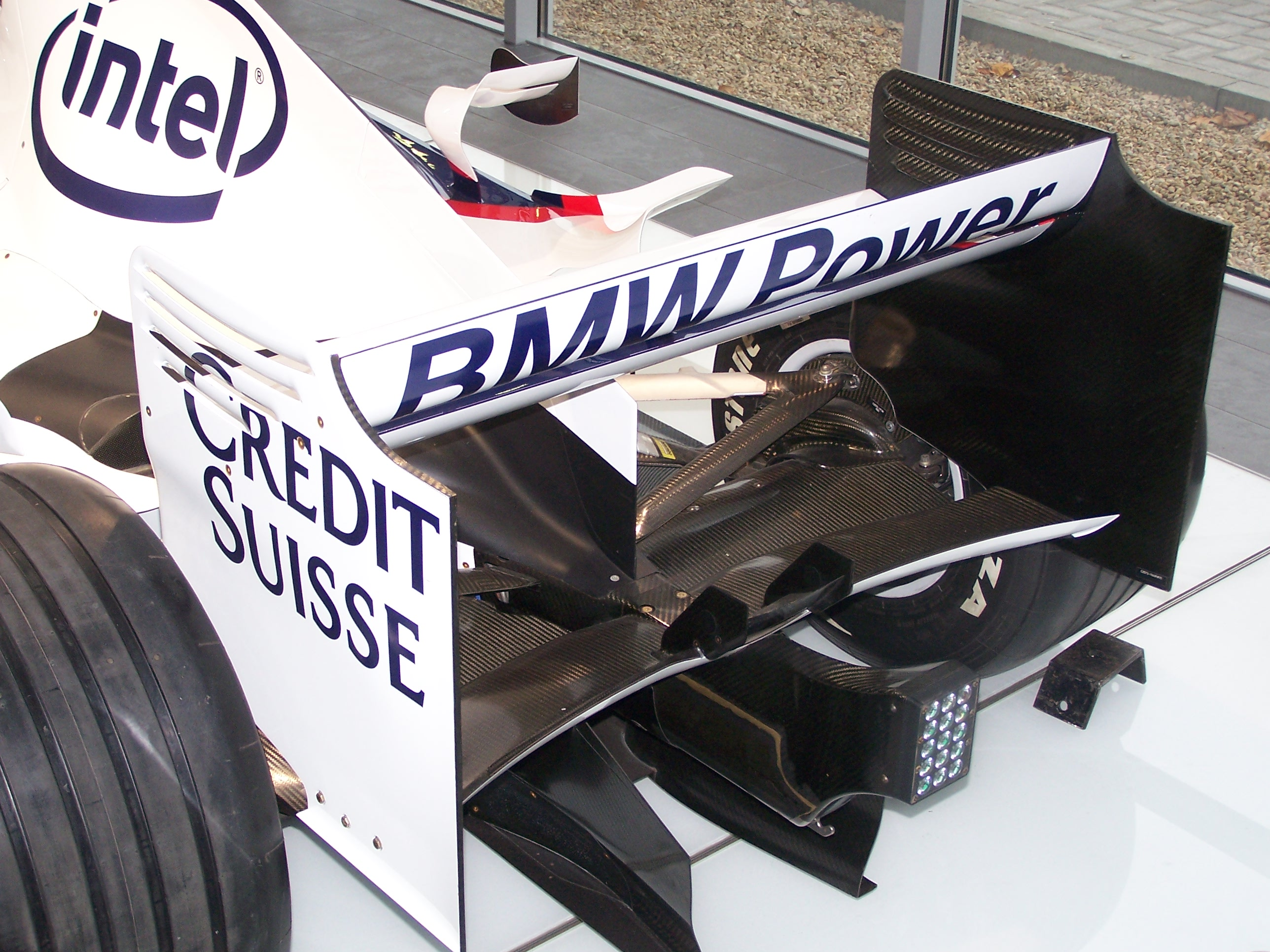 BMW Sauber F1.07 a Formula One single-seater racing car built by BMW Sauber for the 2007 Formula One season.